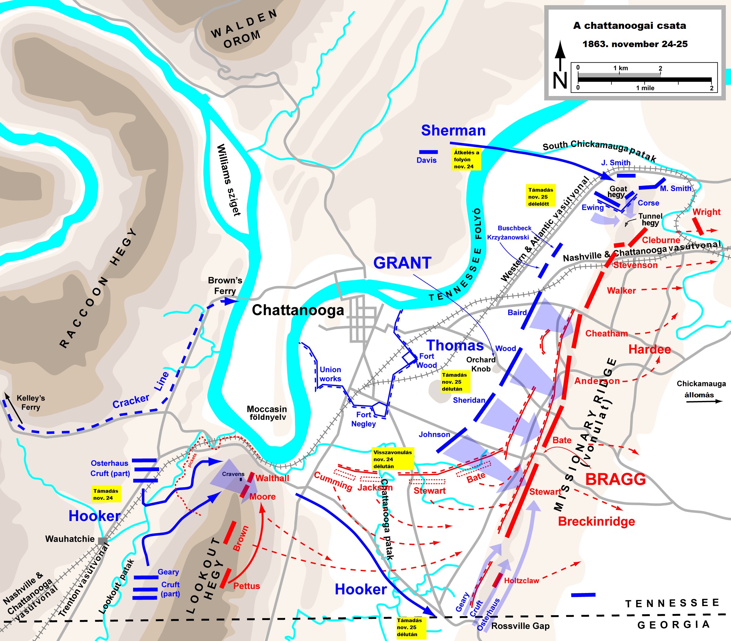 Map of part of the Chattanooga Campaign (the Battles for Chattanooga, Nov. 24-25, 1863) of the American Civil War. Drawn in Adobe Illustrator CS3 by Hal Jespersen. Graphic source file is available at